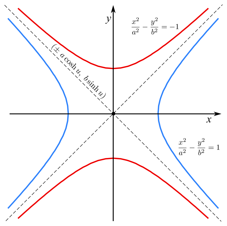 double hyperbola